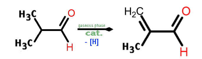 Methacrolein from isobutyraldehyde